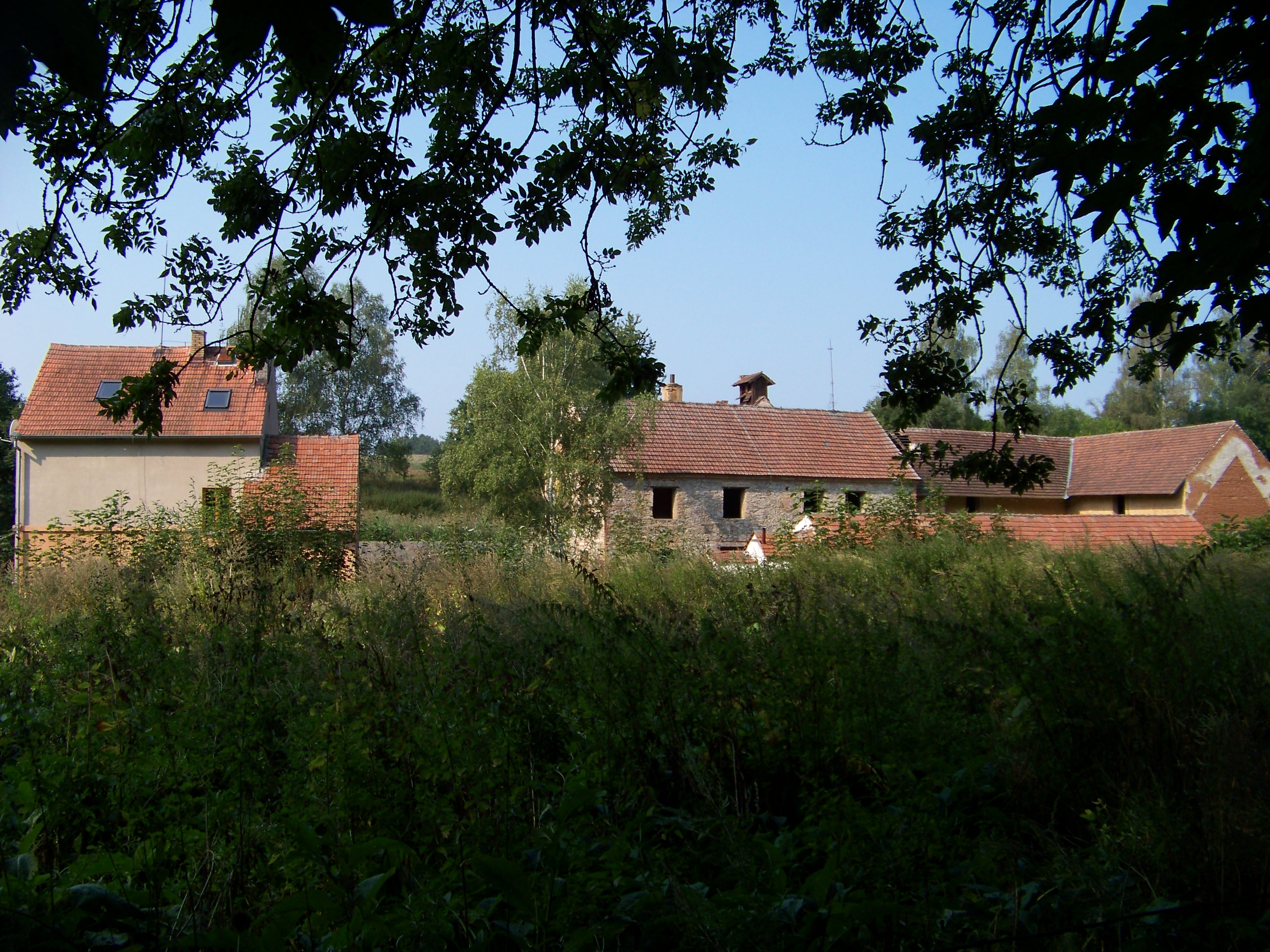 Šípy, Rakovník District, Central Bohemian Region, the Czech Republic. Šípy Mill.